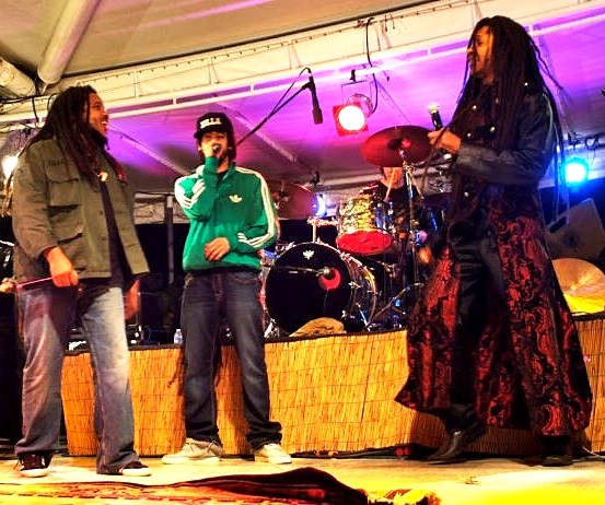 GongZilla and the Ragamuffin at Kēvens's " We Are One" release party.